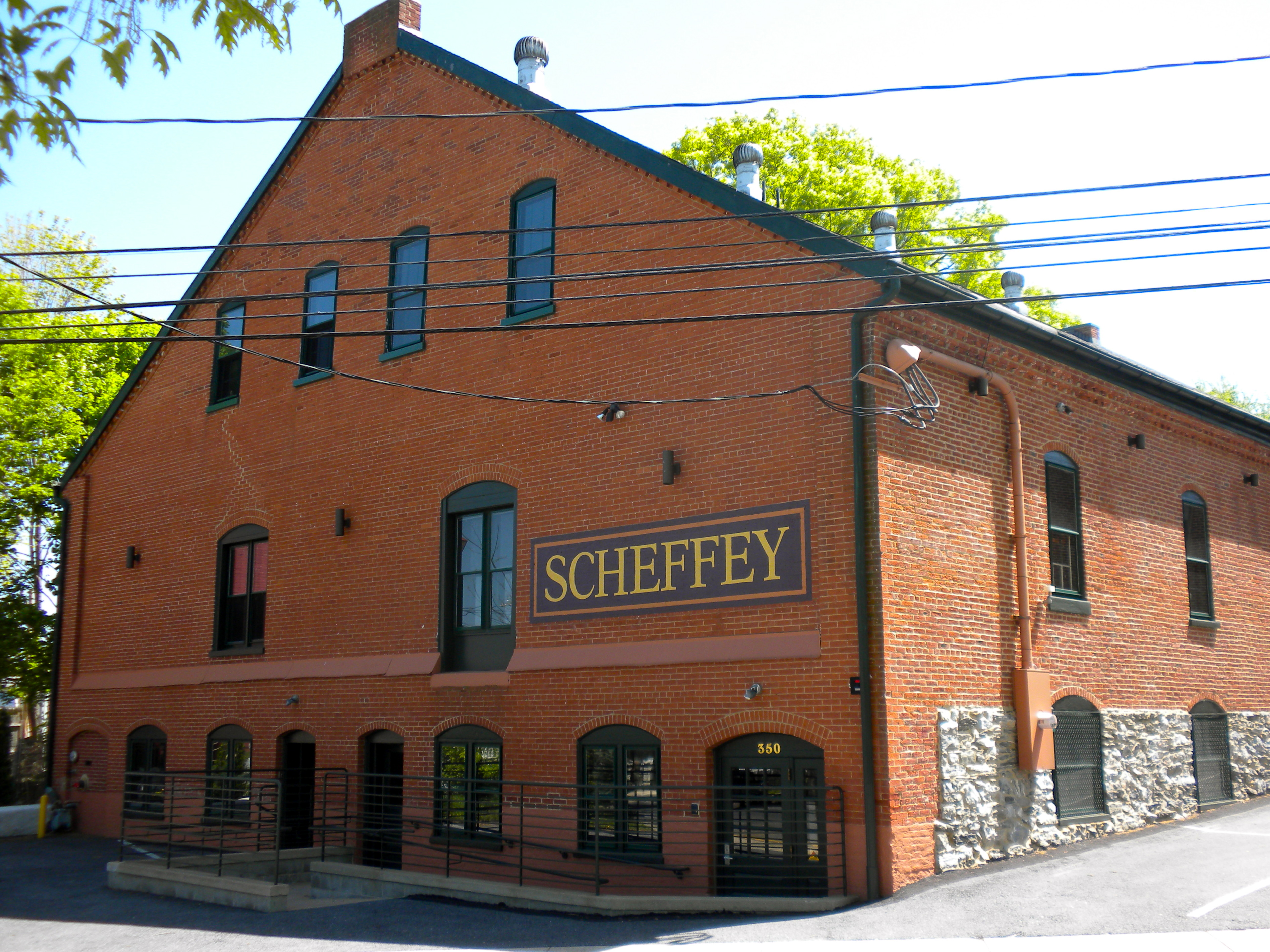 Basch & Fisher Tobacco Warehouse on the NRHP since September 21, 1990. At 348 New Holland Avenue, Lancaster Pennsylvania